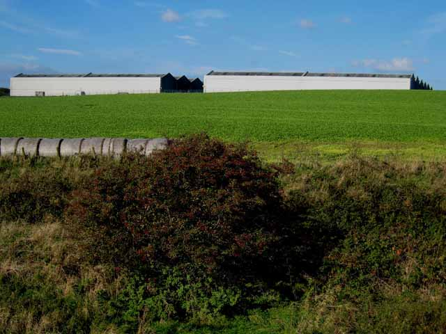 Grant's Distillery, Girvan This enormous distillery, more reminiscent of a chemical works, was built in 1963 to manufacture grain whisky for Grant's blended products. Viewed from the B741 looking across the cutting which carries the Ayr to Girvan railway.